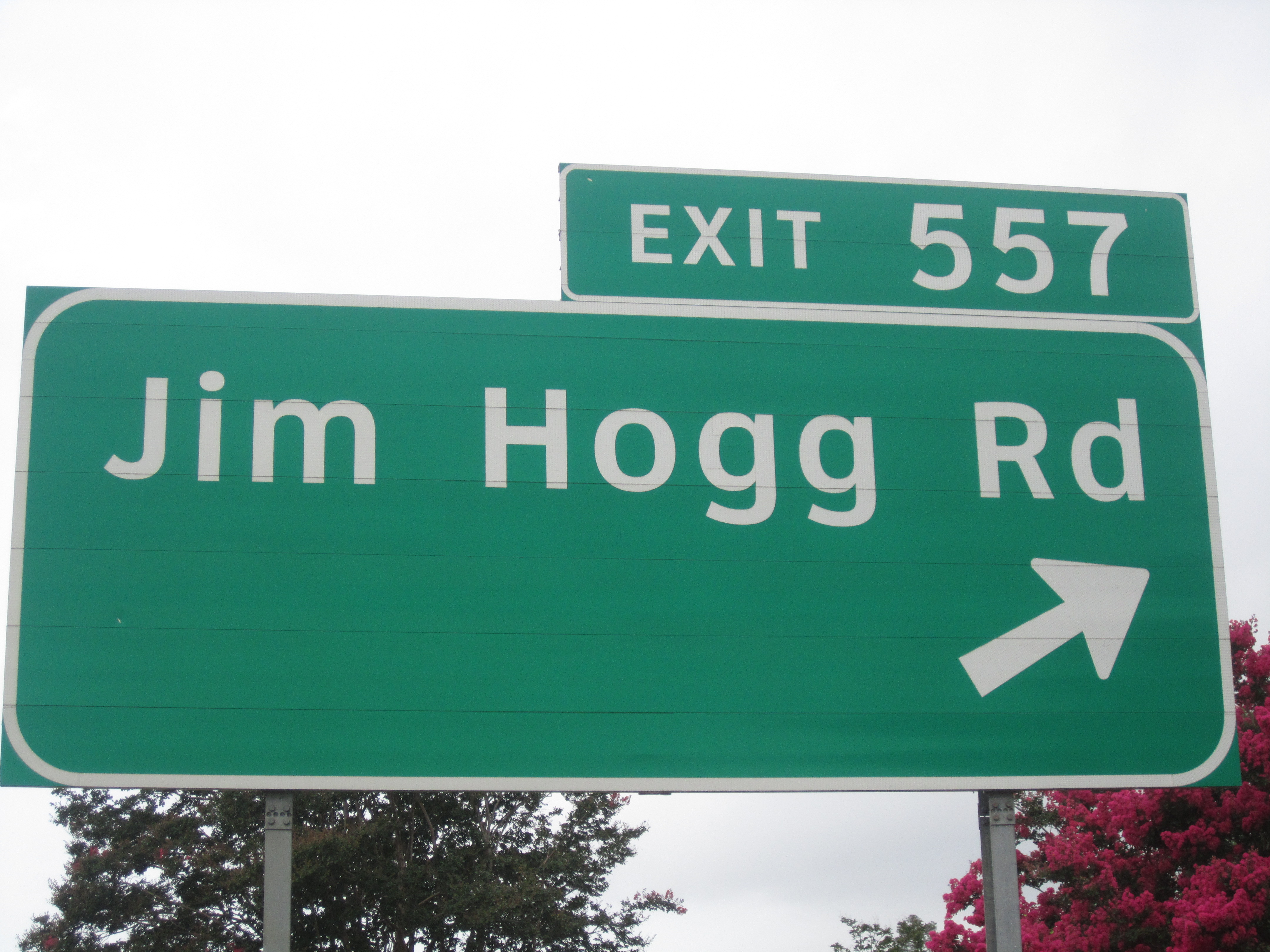 Jim Hogg Road exit west of Tyler, TX, on Interstate 20; taken June 14, 2012, with Canon camera.